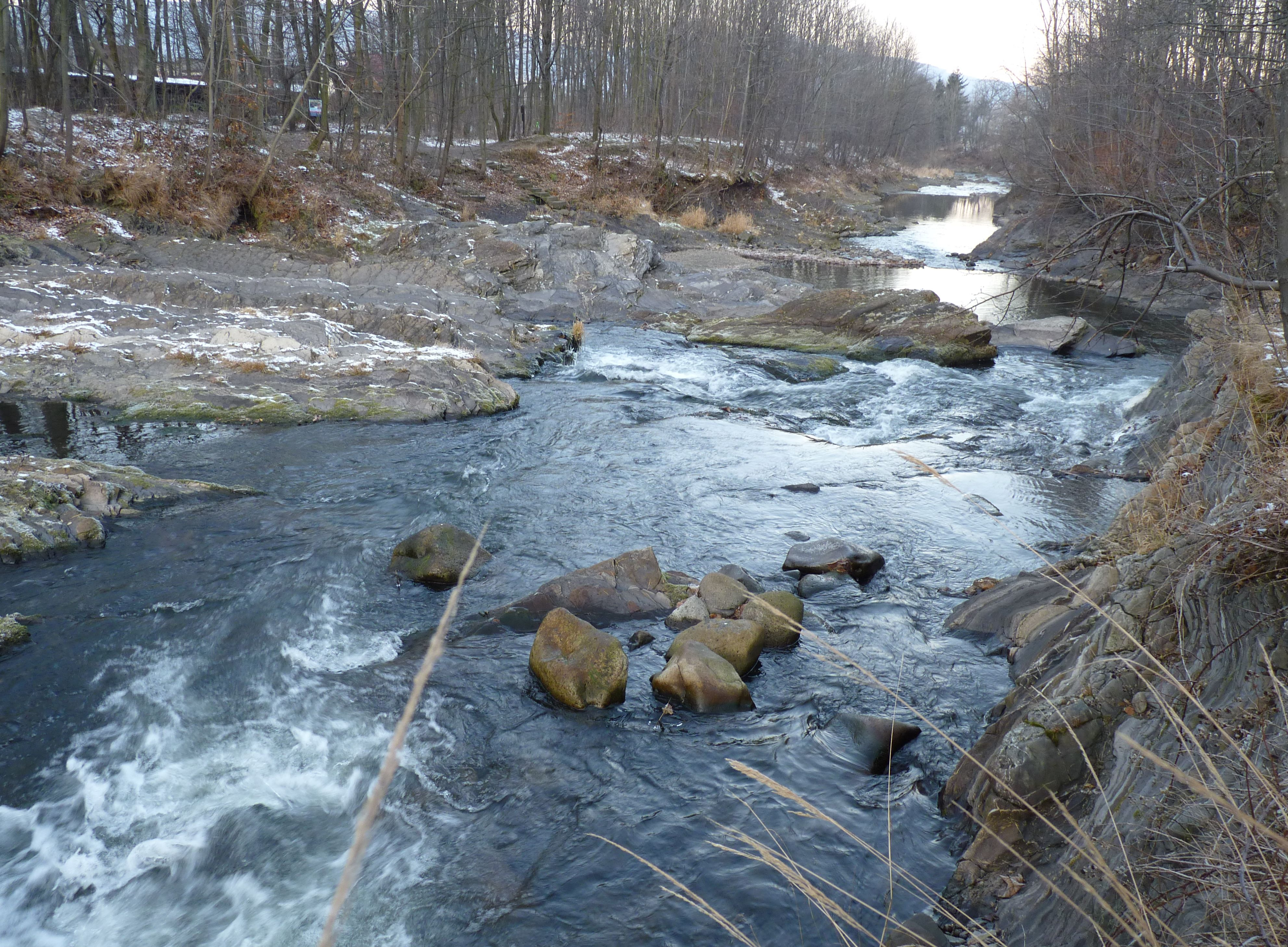 Koryto řeky Ostravice, natural monument in Frýdek-Místek Dostrict, Czech Republic